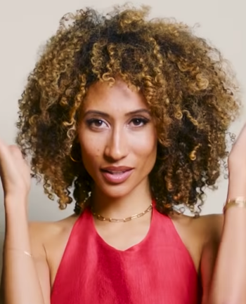 Elaine Welteroth in 2020.